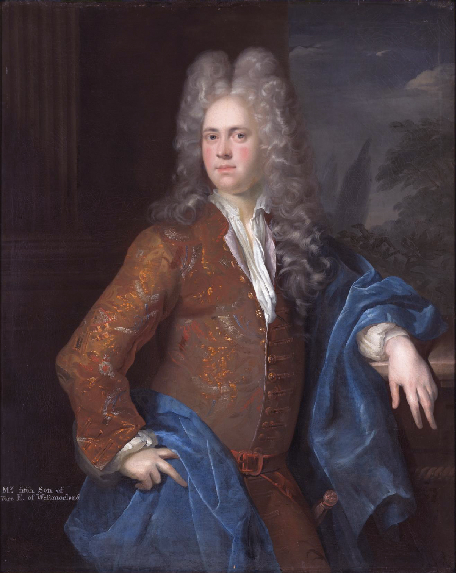 The Hon. Mildmay Fane was a younger son of Vere Fane, 4th Earl of Westmorland, by Rachel, daughter of John Bence. He sat as Member of Parliament for Kent from February to September 1715. He died 11 September 1715, aged 25.